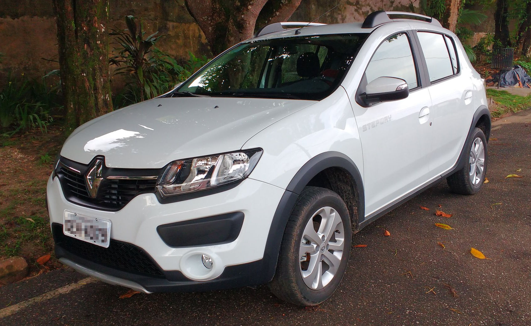 Photo of a Renault Sandero Stepway, sold as "model 2017" in Brazil towards the end of 2016. Belém, Pará, Brazil